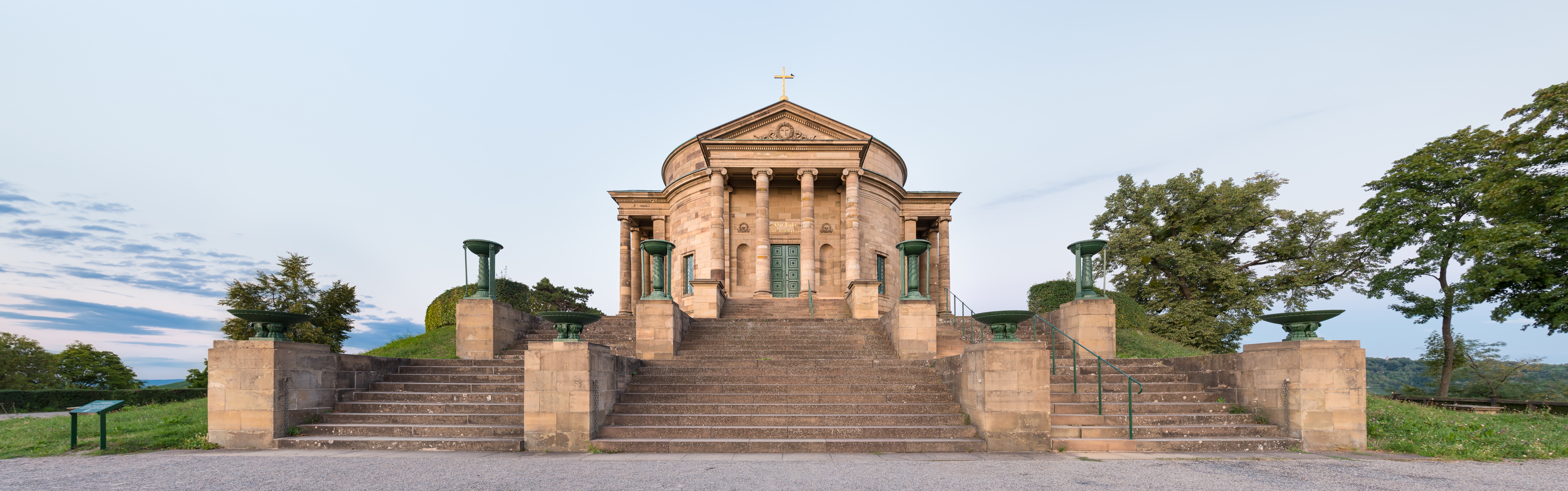 The Württemberg Mausoleum in the Rotenberg part of Untertürkheim in Rotenberg, Stuttgart, Germany.